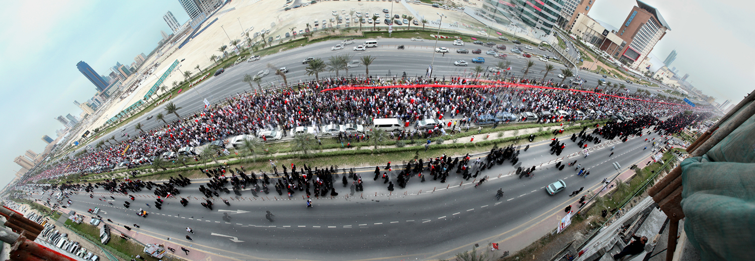 Panoramic image for march of loyalty to Martyrs